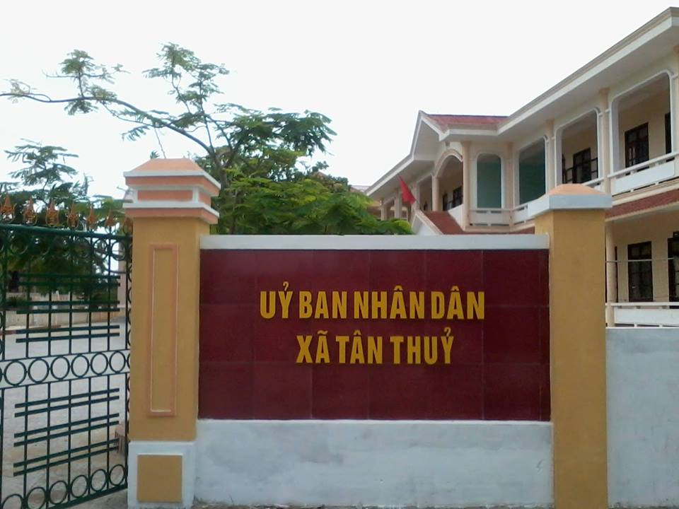 very good